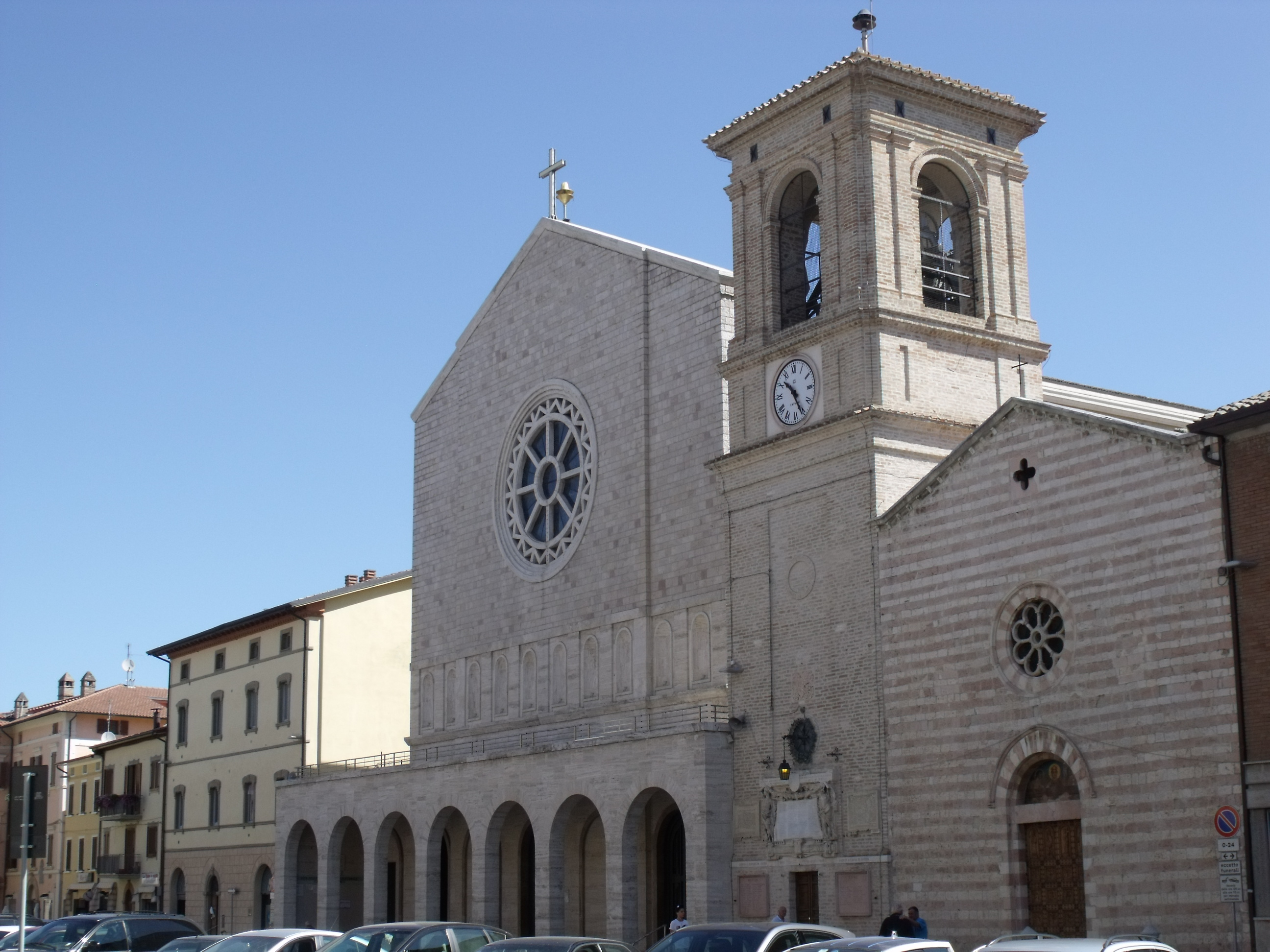 Church of San Michele Arcangelo in Bastia Umbra, Province of Perugia, Umbria, Italy